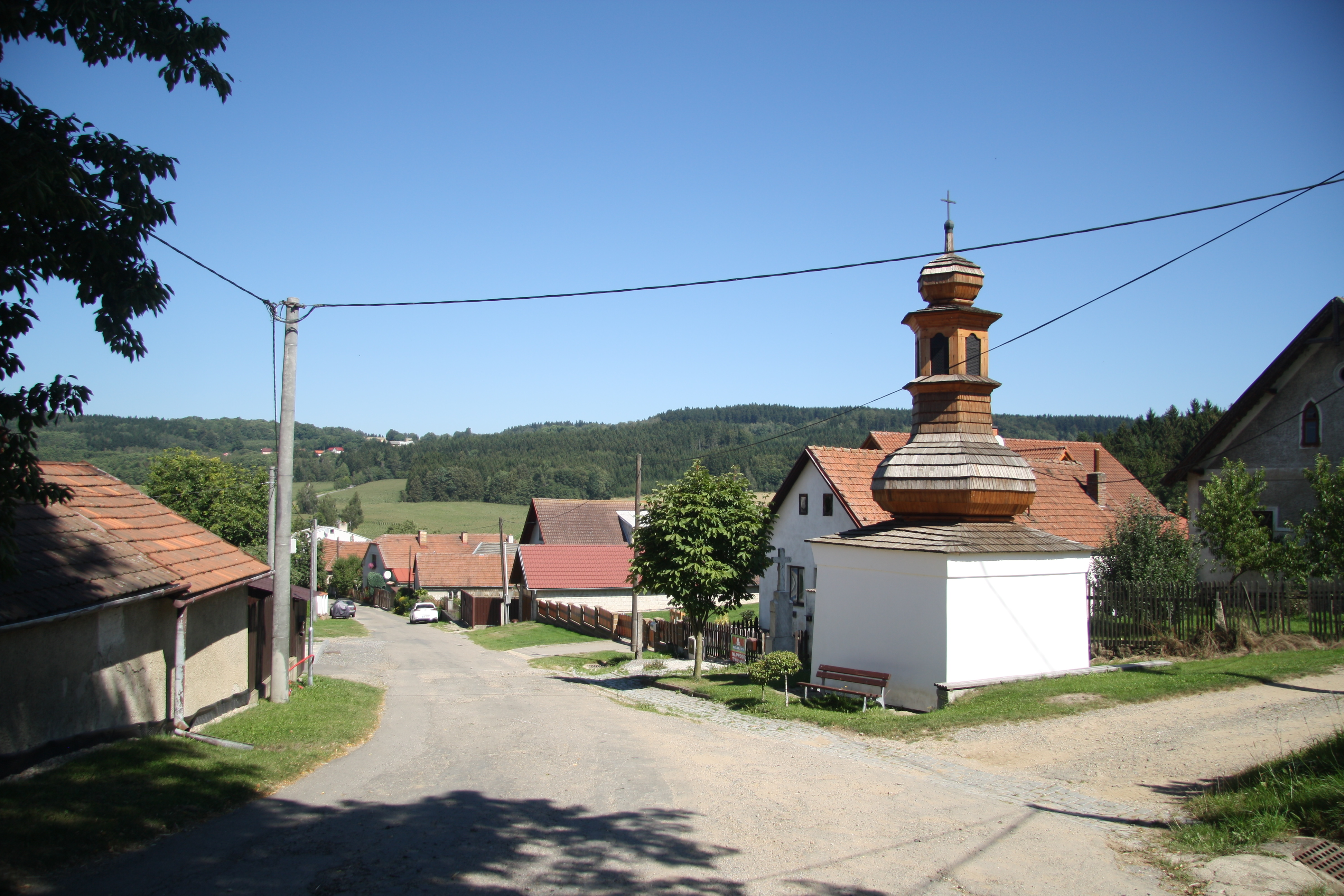 Center of Milíkov, Černá, Žďár nad Sázavou District.